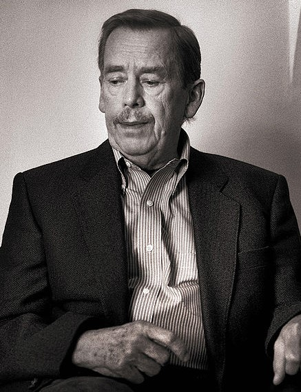 Václav Havel